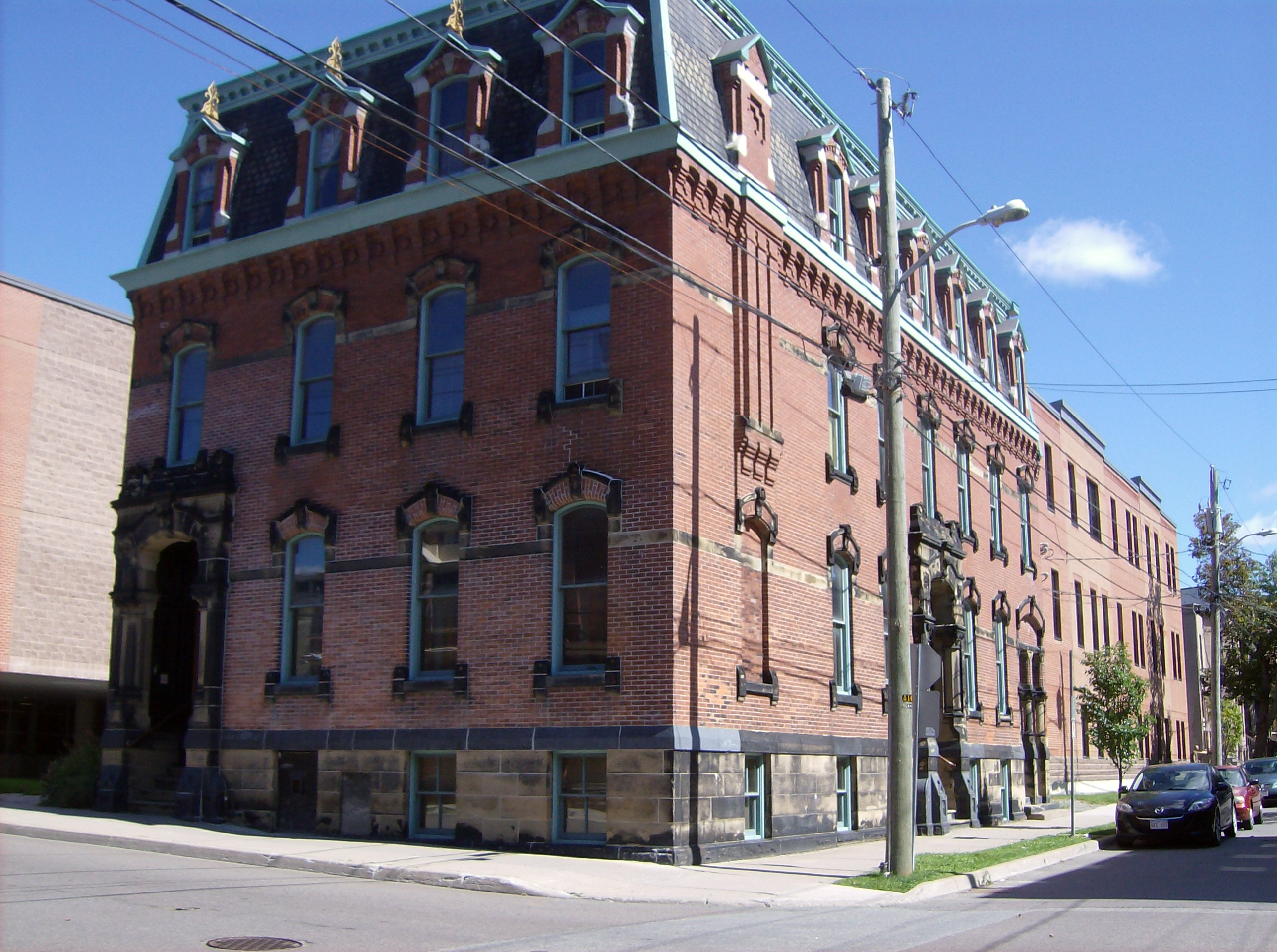 Princess and Sydney Saint John NB